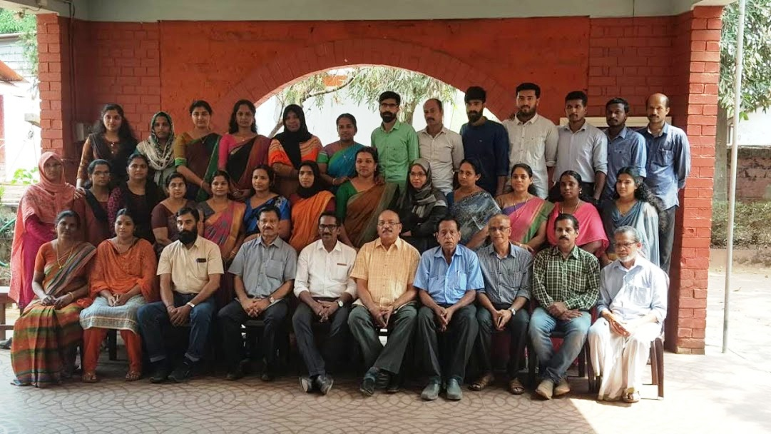 Alfarook College is a Muslim campus offering courses in Business Management and English Literature. The beautiful all-brick structure is located inside the Farook College Township, Calicut, Kerala.